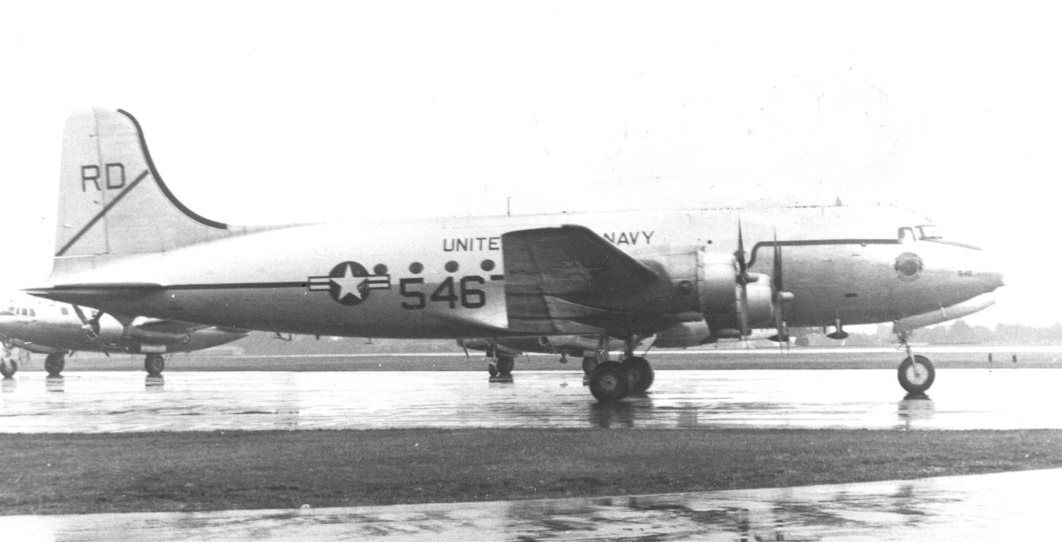 A U.S. Navy Douglas R5D-3 Skymaster (BuNo 56546) of transport squadron VR-24 at Blackbushe, Hampshire (UK), in 1954.